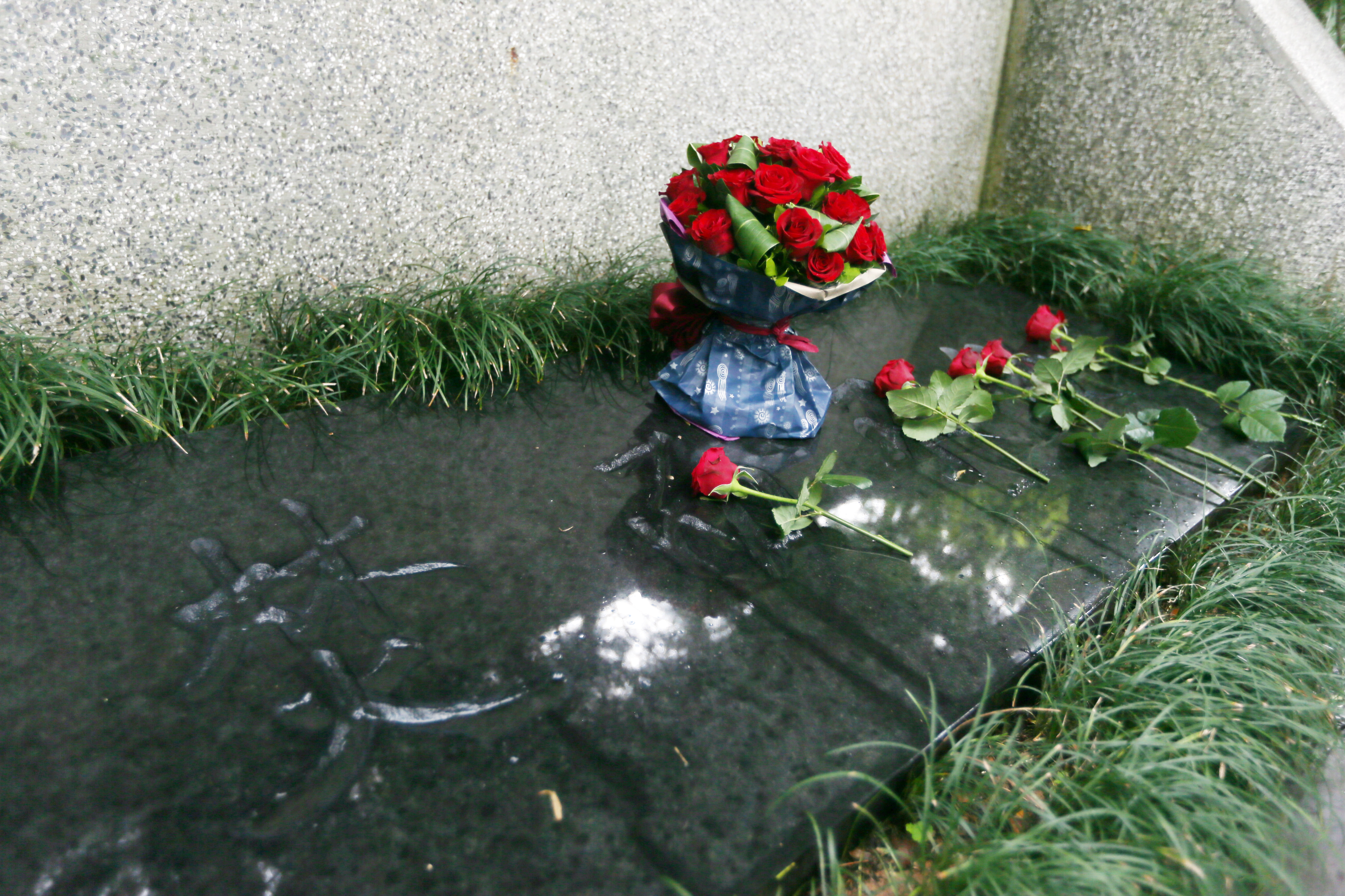 授權方式及範圍：中華民國總統府│政府網站資料開放宣告 Authorization Method & Scope: Office of the President, Republic of China (Taiwan) | Government Website Open Information Announcement